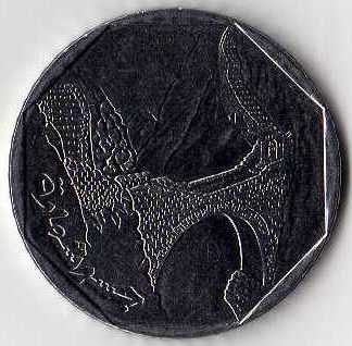 10 Yemeni rials - reverse